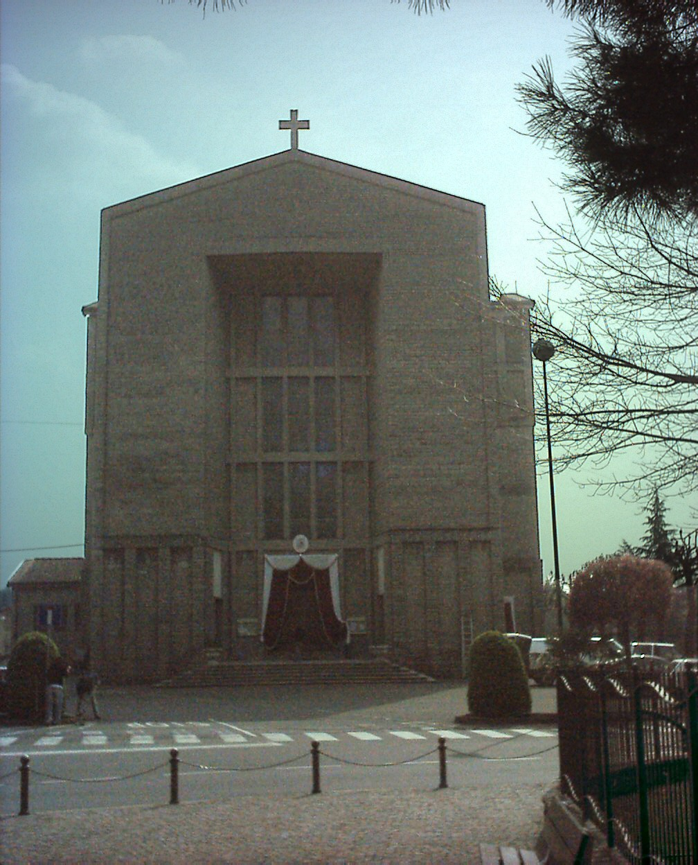 Parish church of Almè, Bergamo, Italy